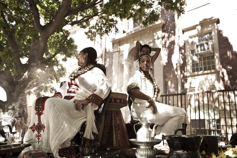 Infecting the City Festival 2011 - Day 1 - Jewel Route